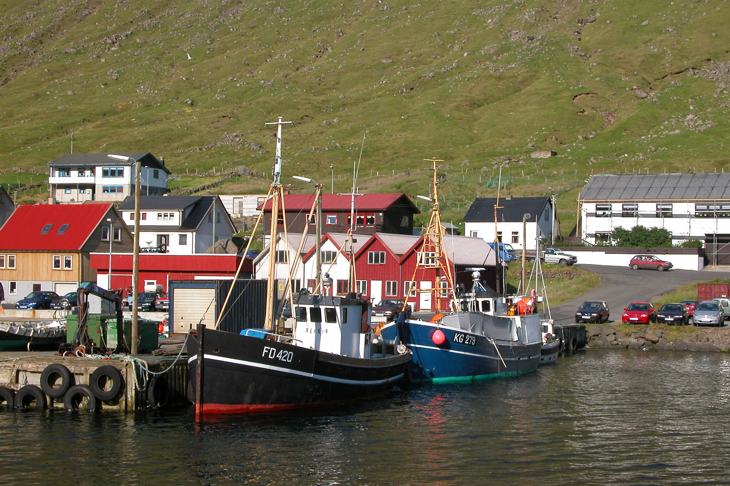 Hvannasund on Viðoy, Faroe Islands.